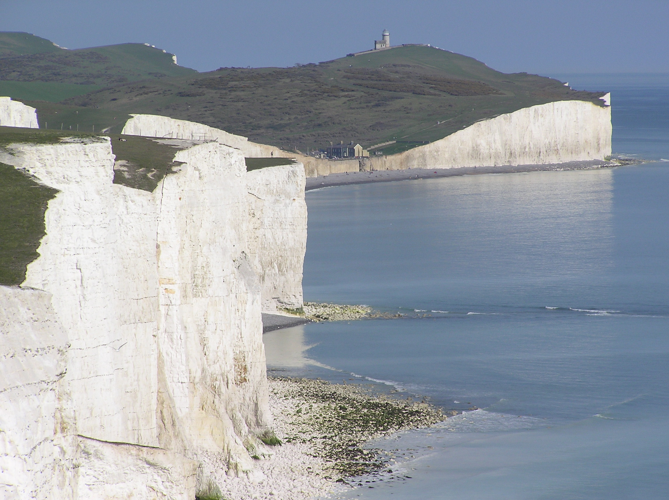 Beachy Head and Seven Sisters, April 2004